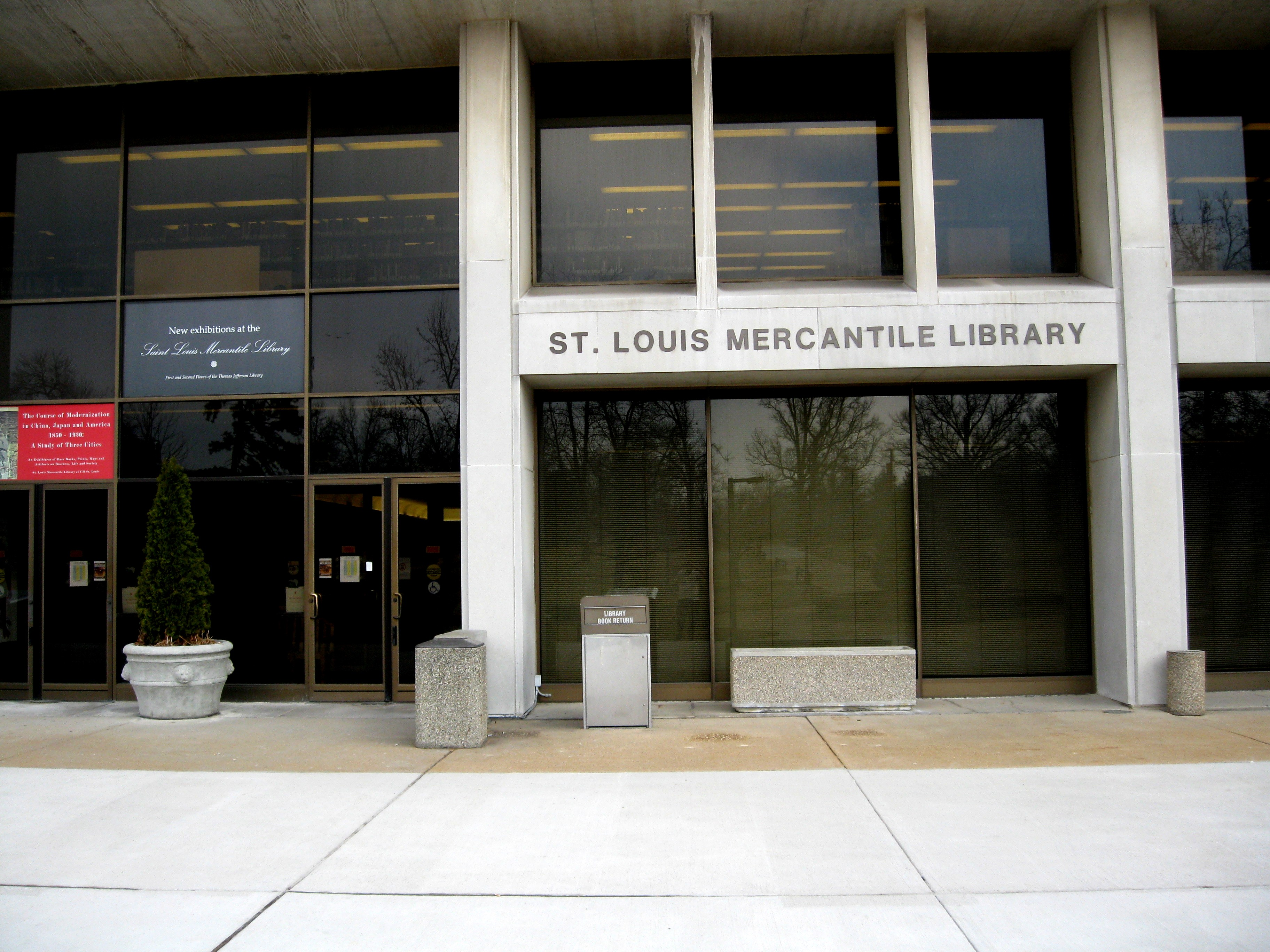 Facade and entrance to the St. Louis Mercantile Library at the University of Missouri-St. Louis